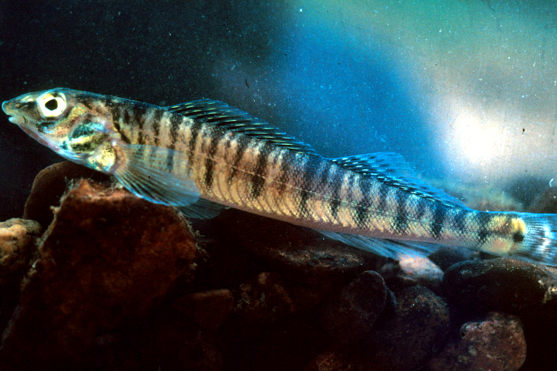 Percina caprodes USFWS photo